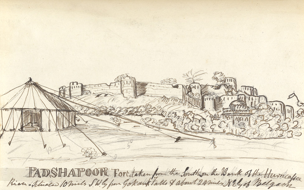 .57v' Padshapoor Fort taken from the South on the Bank of the Hurncassee River situated 10 miles S.W.ly from Gokauk Falls & about 24 miles N.E.ly of Belgaon..'